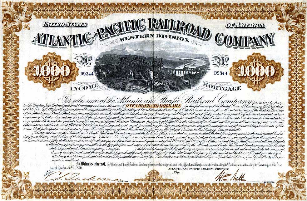 Atlantic & Pacific Railroad Co. (Western Division) $1000 Bond dated 1880 Source: The Cooper Collection of Early American Railroadiana